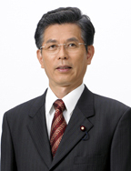 Takashi Shinohara was the Senior Vice-Minister of Agriculture, Forestry and Fisheries on January, 2011.